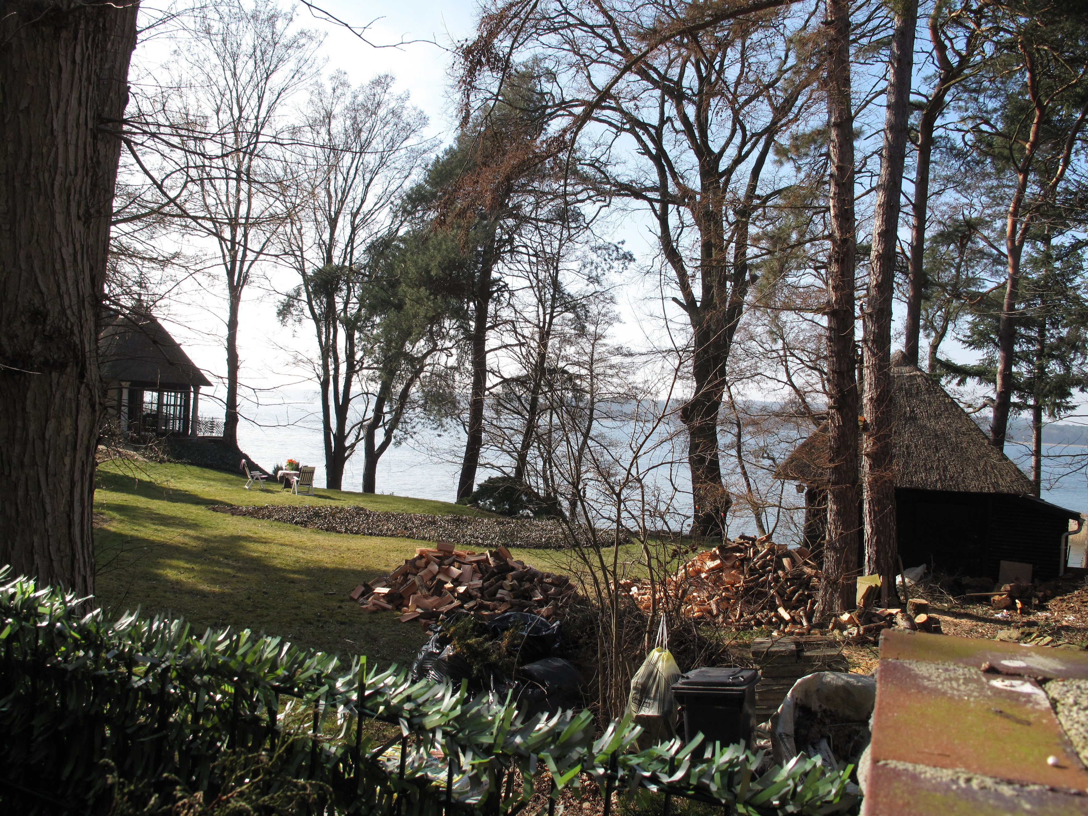 Garden of the listed summer cottage in Diensdorf-Radlow, Uferweg 13, District Oder-Spree, Brandenburg, Germany. It was built in 1937/38 and is situated at the eastern bank of the Scharmützelsee.